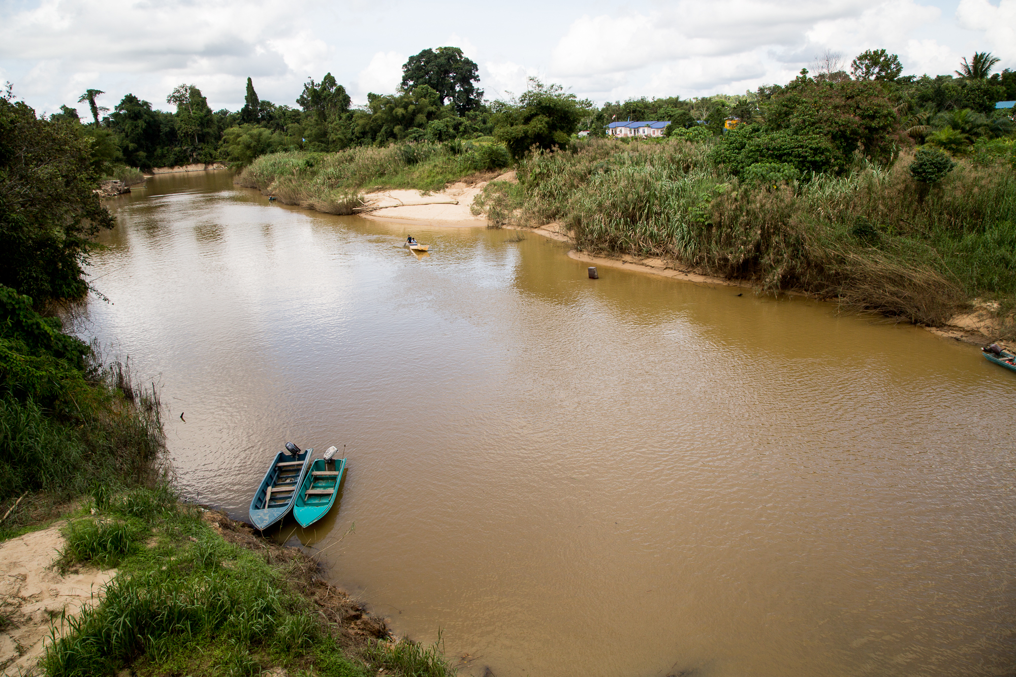 Rivers of Sabah: Sungai Paitan at the bridge of Kg. Tigawe, Paitan, Sabah